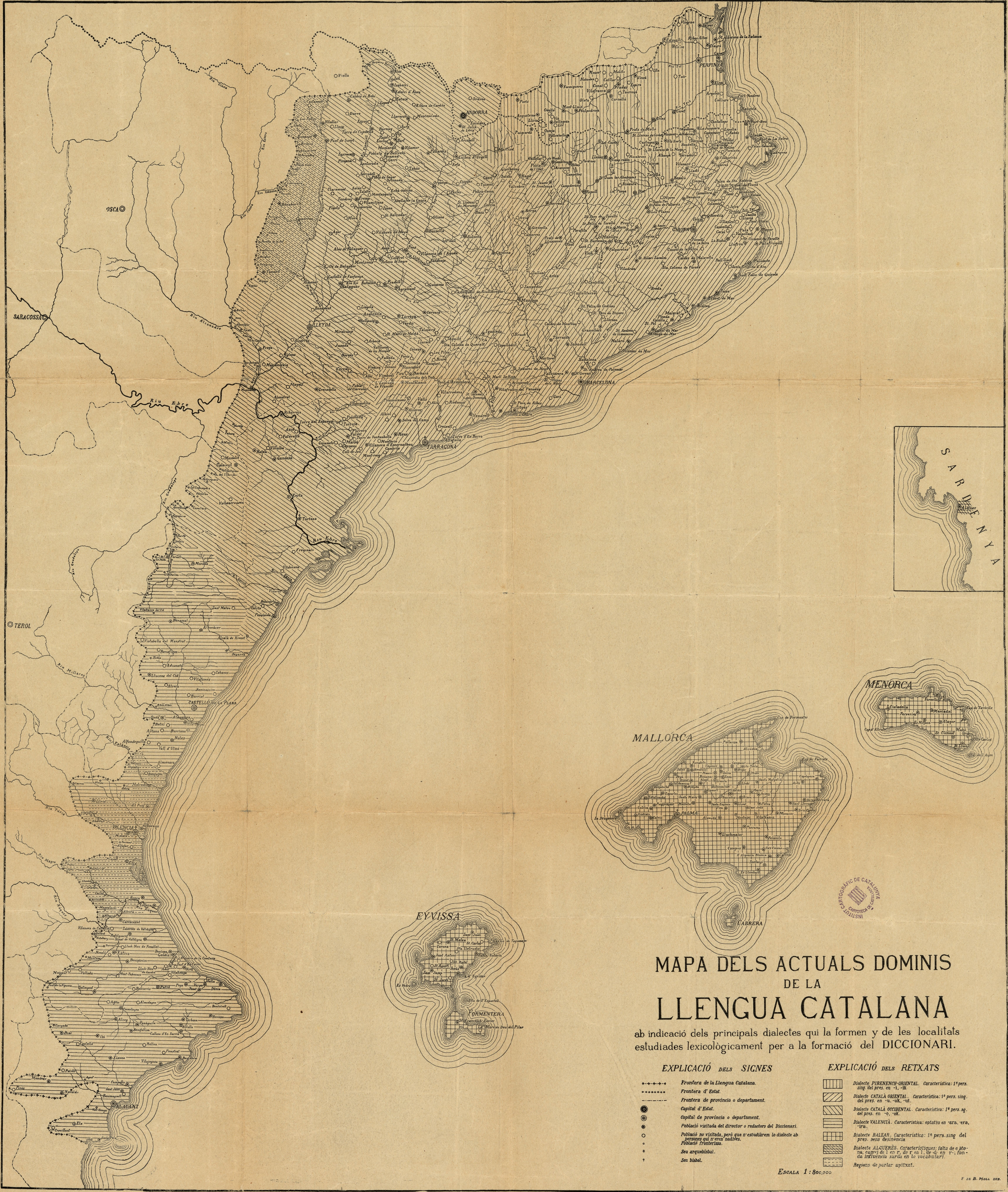 Dialectal map of the Catalan language of the Diccionari català-valencià-balear.